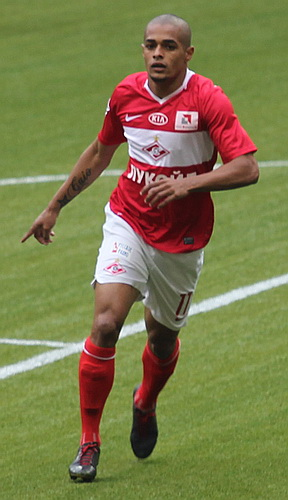 Welliton